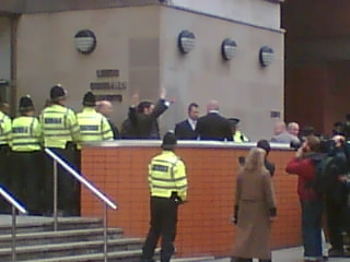 Nick Griffin and Mark Collett walk free from Leeds Crown Court.